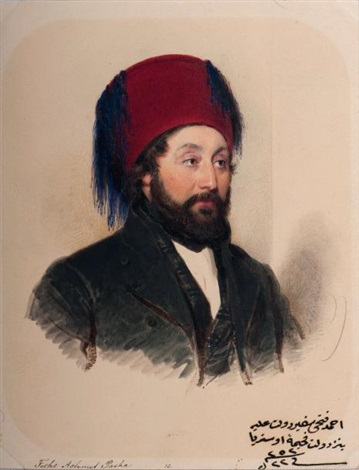 Ahmed Fethi Pasha by Moritz Michael Daffinge, 19th century painting.